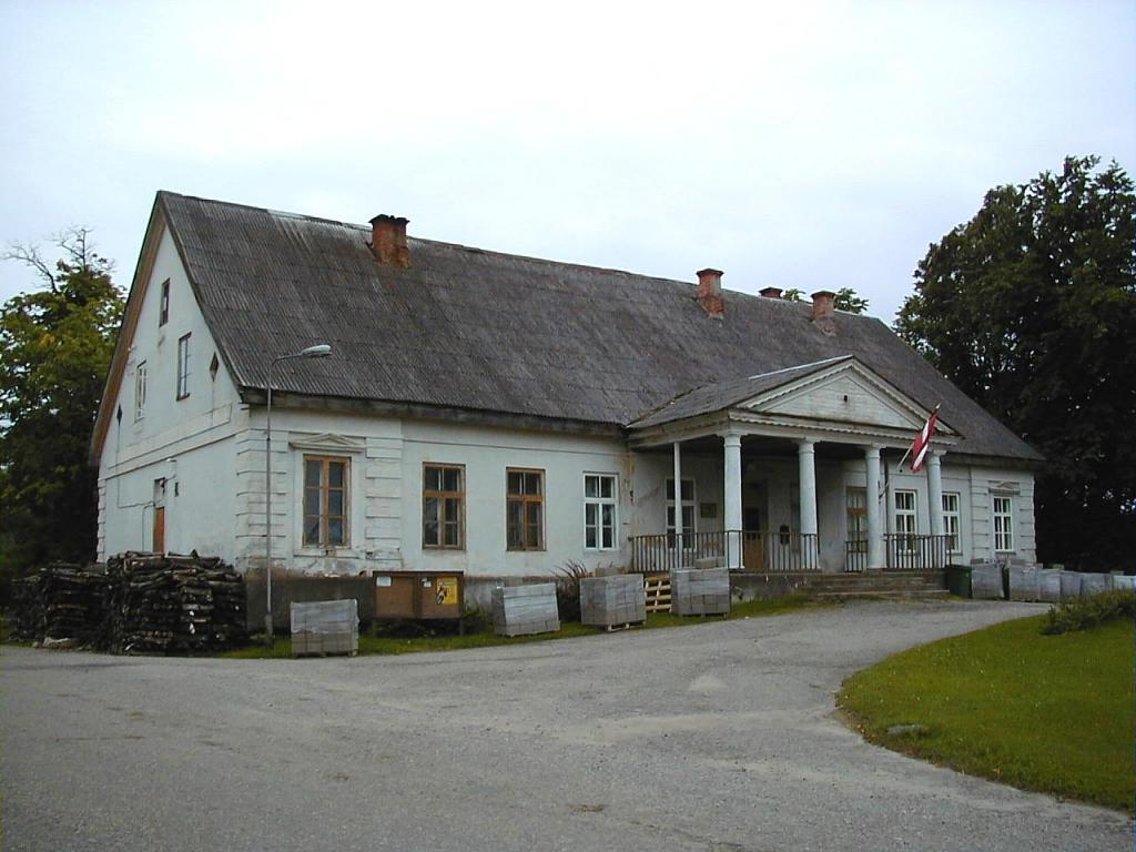 Launkalne parish administration